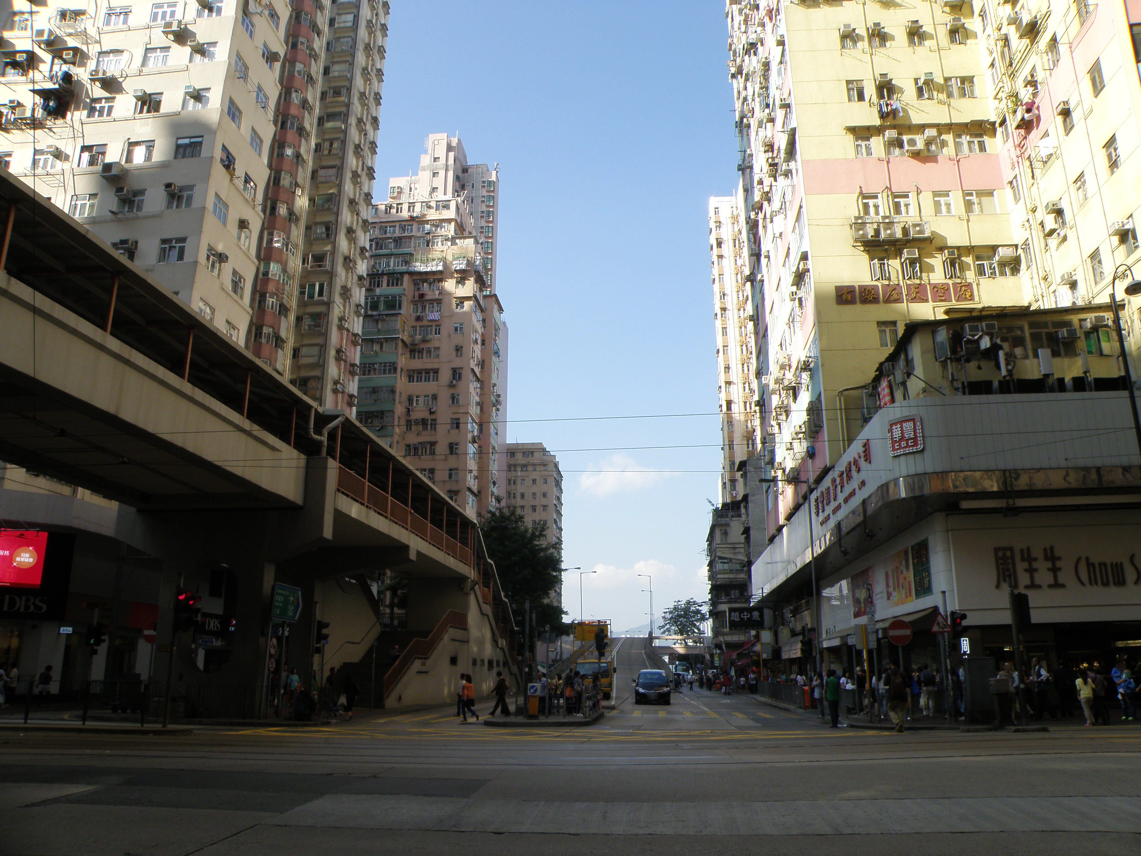 Tong Shui Road in North Point, Hong Kong.